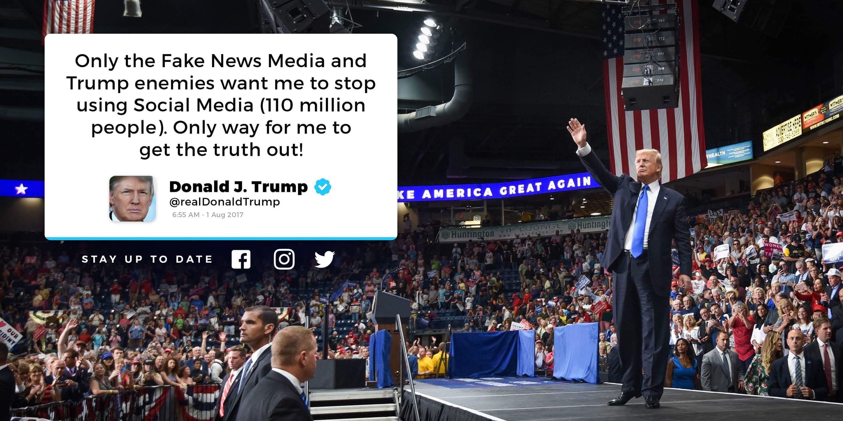 Trump